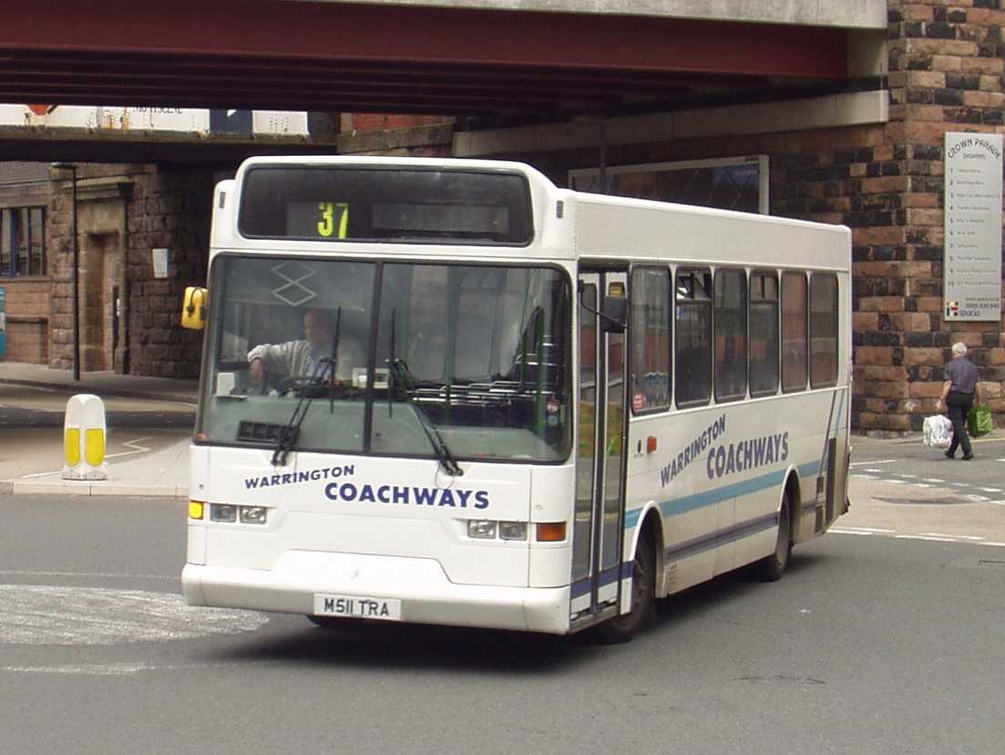 M511 TRA, a Volvo B6 rebodied by East Lancs (having originally had Alexander Dash bodywork). I believe that it is an East Lancs Flyte body, on account of it being a step-entrance vehicle. (Others have reported it as a Spryte, but my understanding is that Spryte was the low-floor version.)